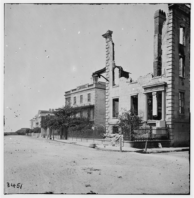 During the Civil War, shelling seriously damaged several houses along Charleston's Battery.